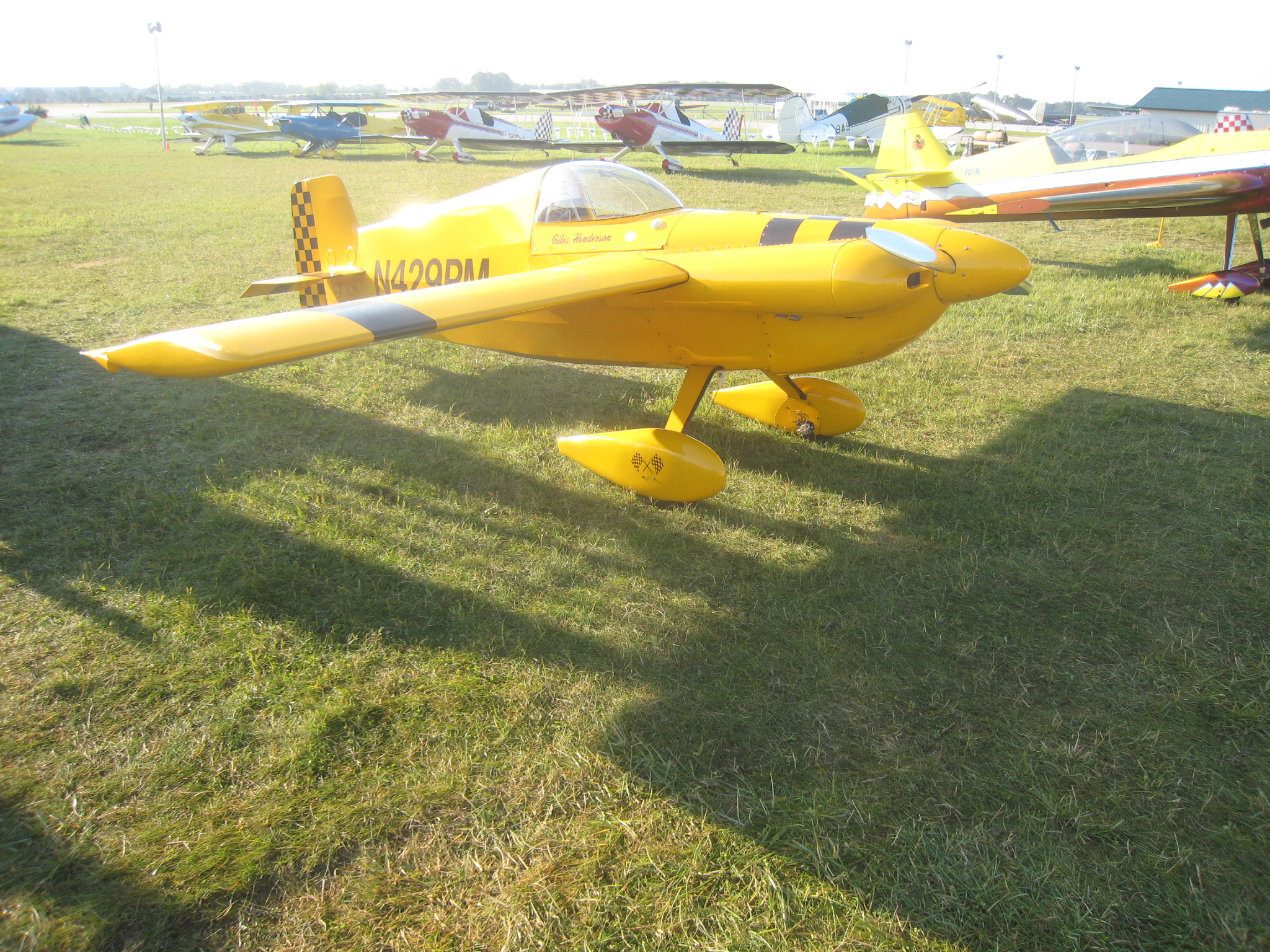 Cassutt racer